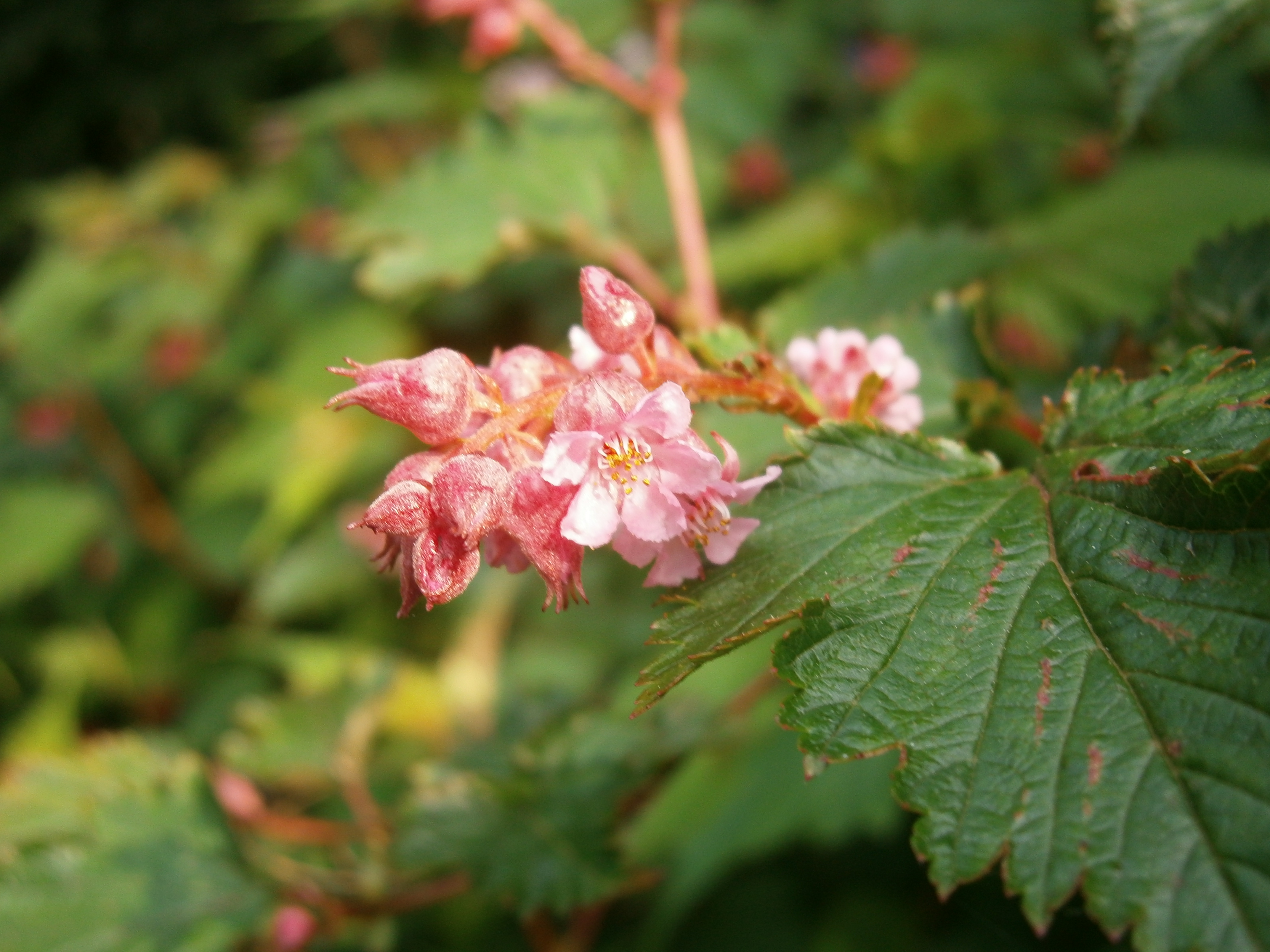 Neillia thibetica clode-up